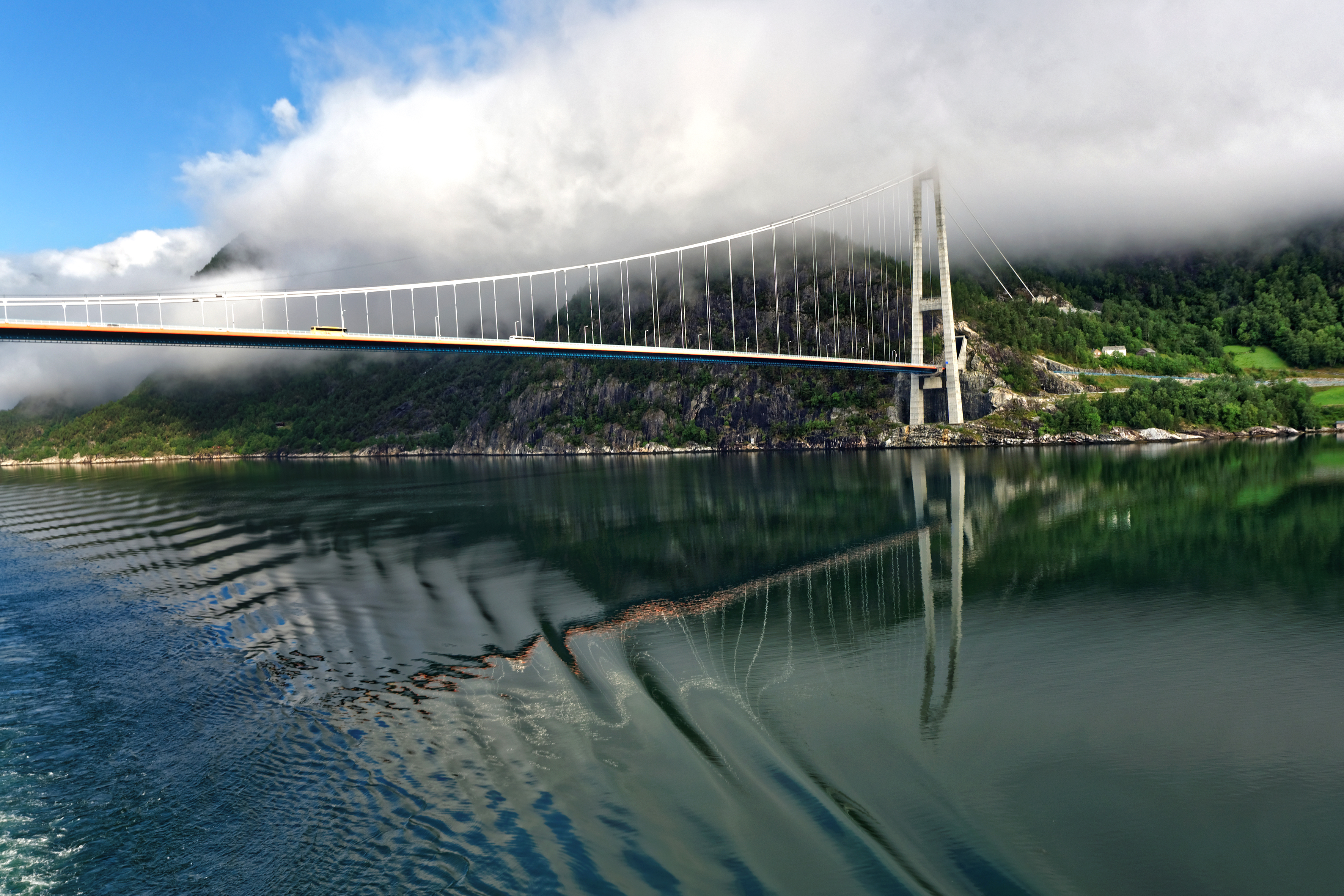 The Hardangerfjord in Norway in the morning.